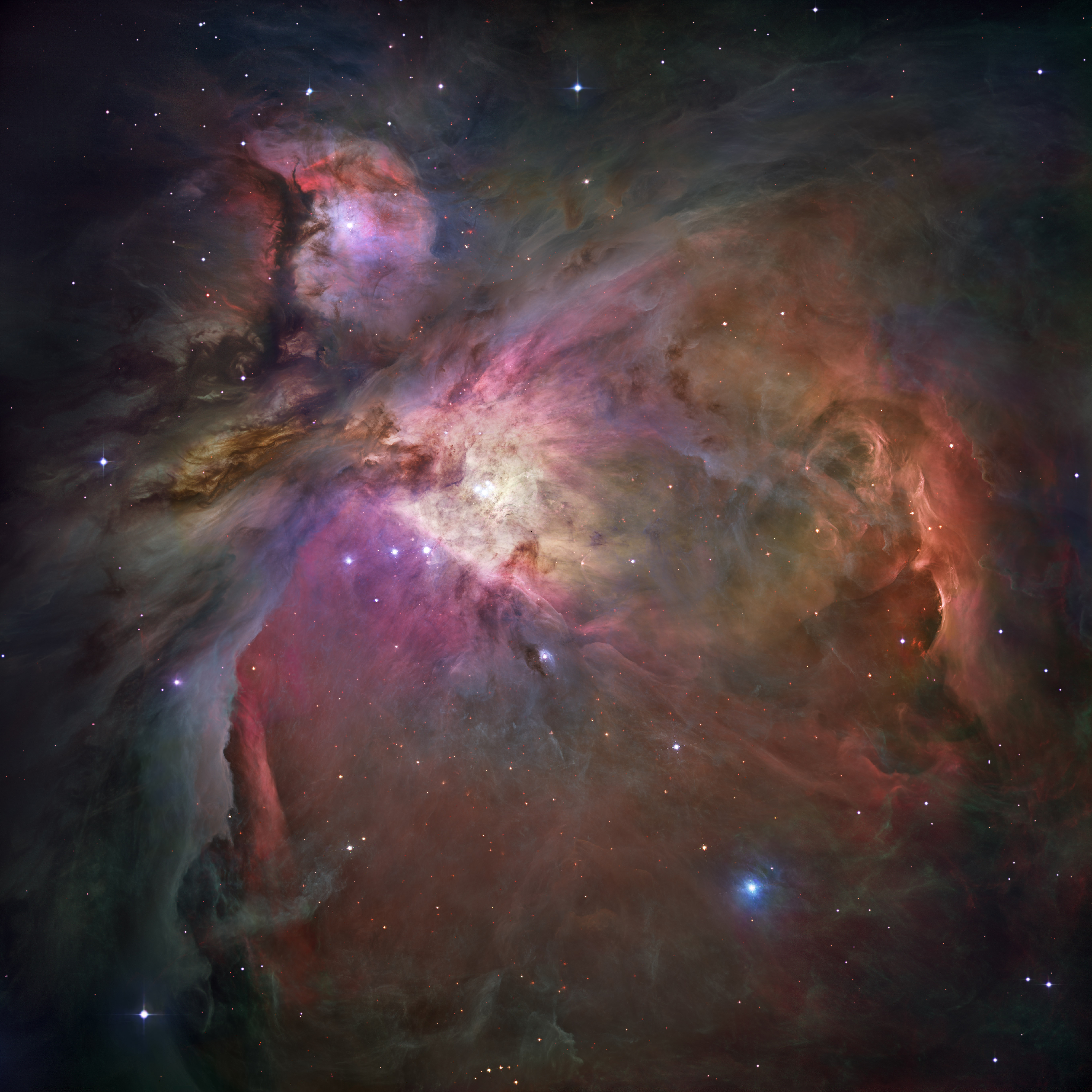 "In one of the most detailed astronomical images ever produced, NASA's Hubble Space Telescope captured an unprecedented look at the Orion Nebula. ... This extensive study took 105 Hubble orbits to complete. All imaging instruments aboard the telescope were used simultaneously to study Orion. The Advanced Camera mosaic covers approximately the apparent angular size of the full moon."